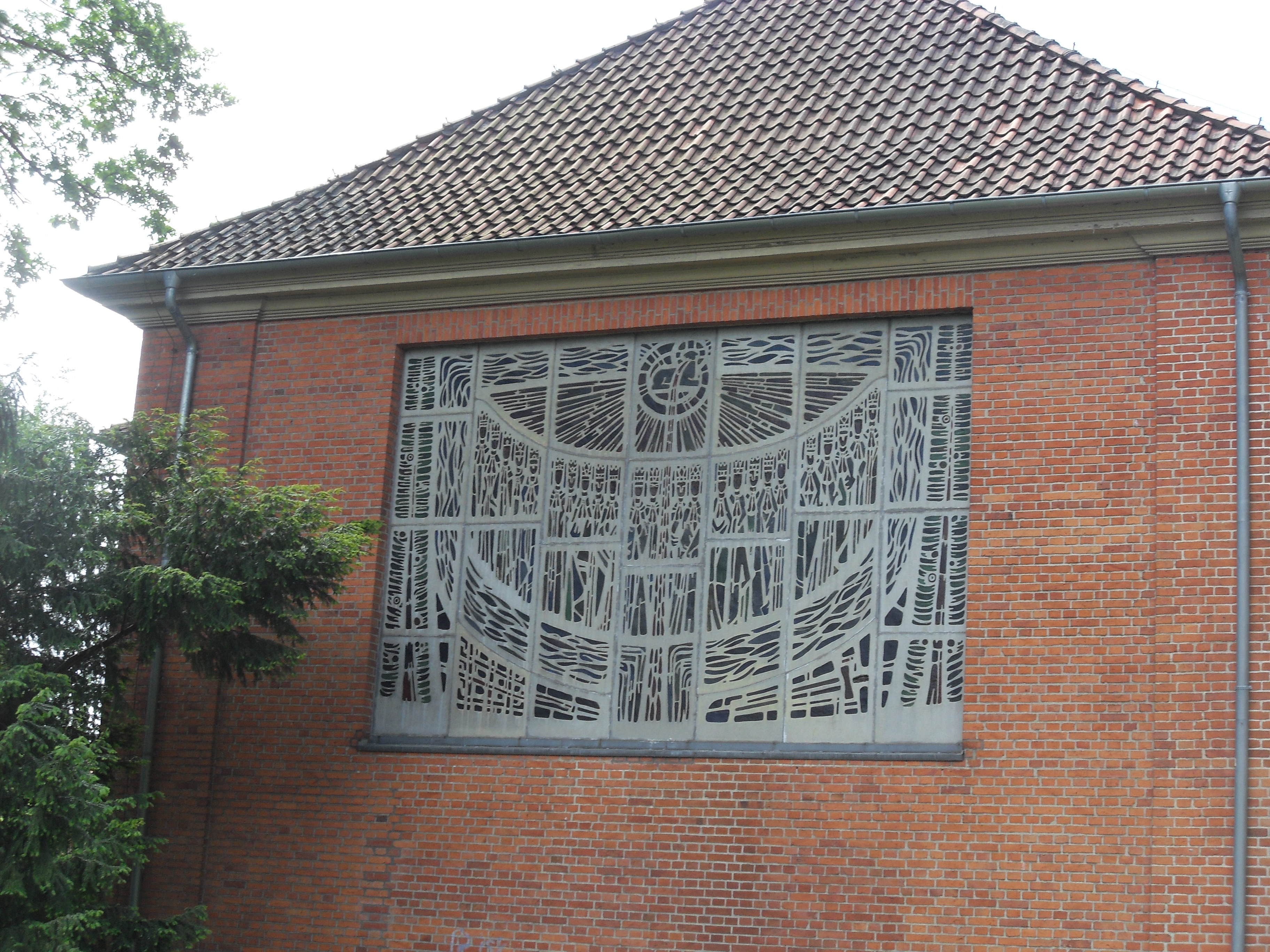 The St.Laurentius church from the back